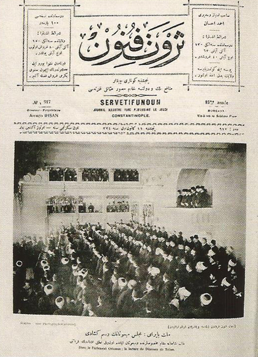 The cover of Servet-i Fünun on 24 December 1908, announcing the first assembly meeting of the Second Constitutional Era.